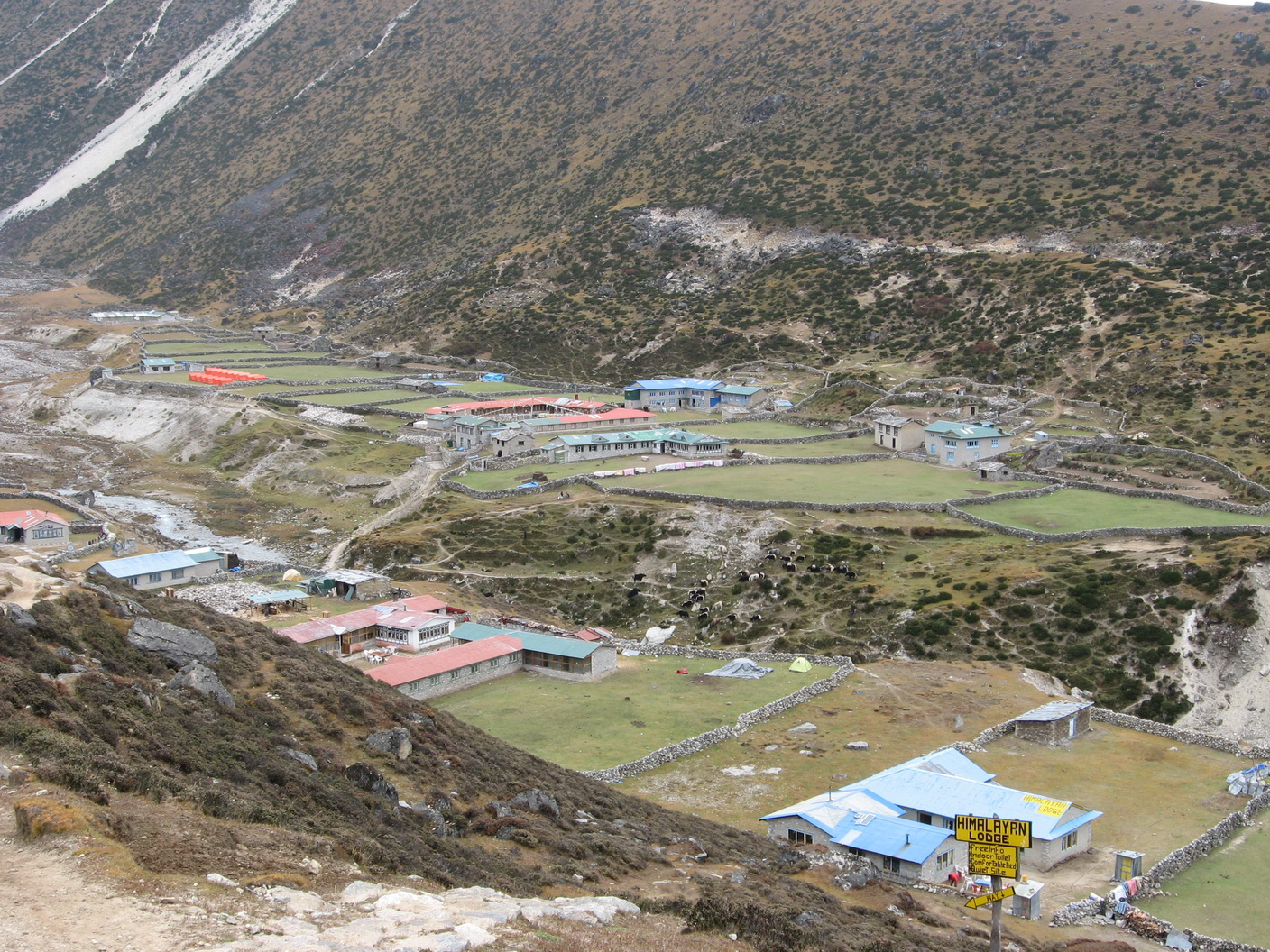 Village of Mochhermo (Nepal)